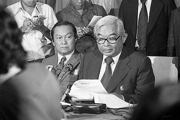 Press conference of Thai prime minister Kukrit Pramoj and foreign minister Chatichai Choonhavan on the withdrawal of US troops from Thailand, 1976, by Norman Peagam